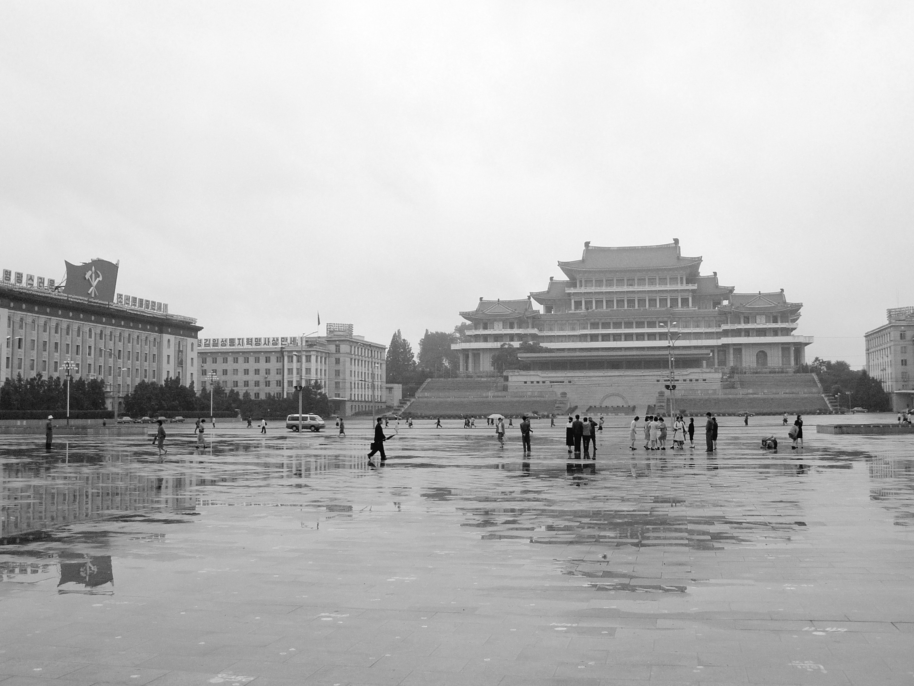 No surprise, the main square in Pyongyang, the venue for military parades, is named Kim Il Sung Square. The structure on the right is the Grand People's Study House, easily the most pleasant looking building in Pyongyang, build in a classical Korean style (Pyongyang is otherwise a sprawling Brutalist nightmare). The complex functions as a library and study hall.